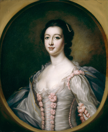 Maria Coventry, Countess of Coventry (1733 – 30 September 1760). After Francis Cotes.